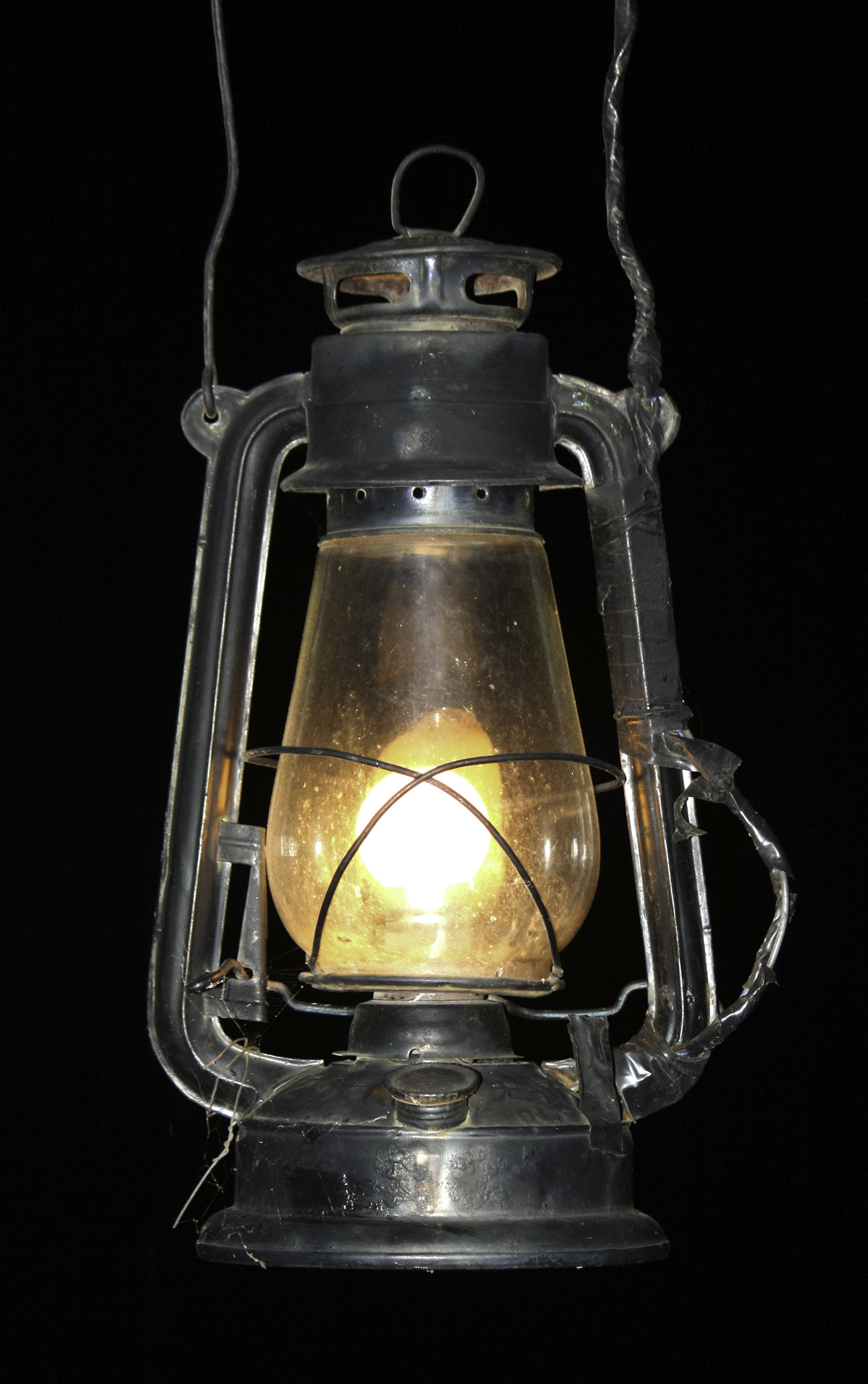 Hurricane lamp, rebuilt for the use of incandescent light bulbs